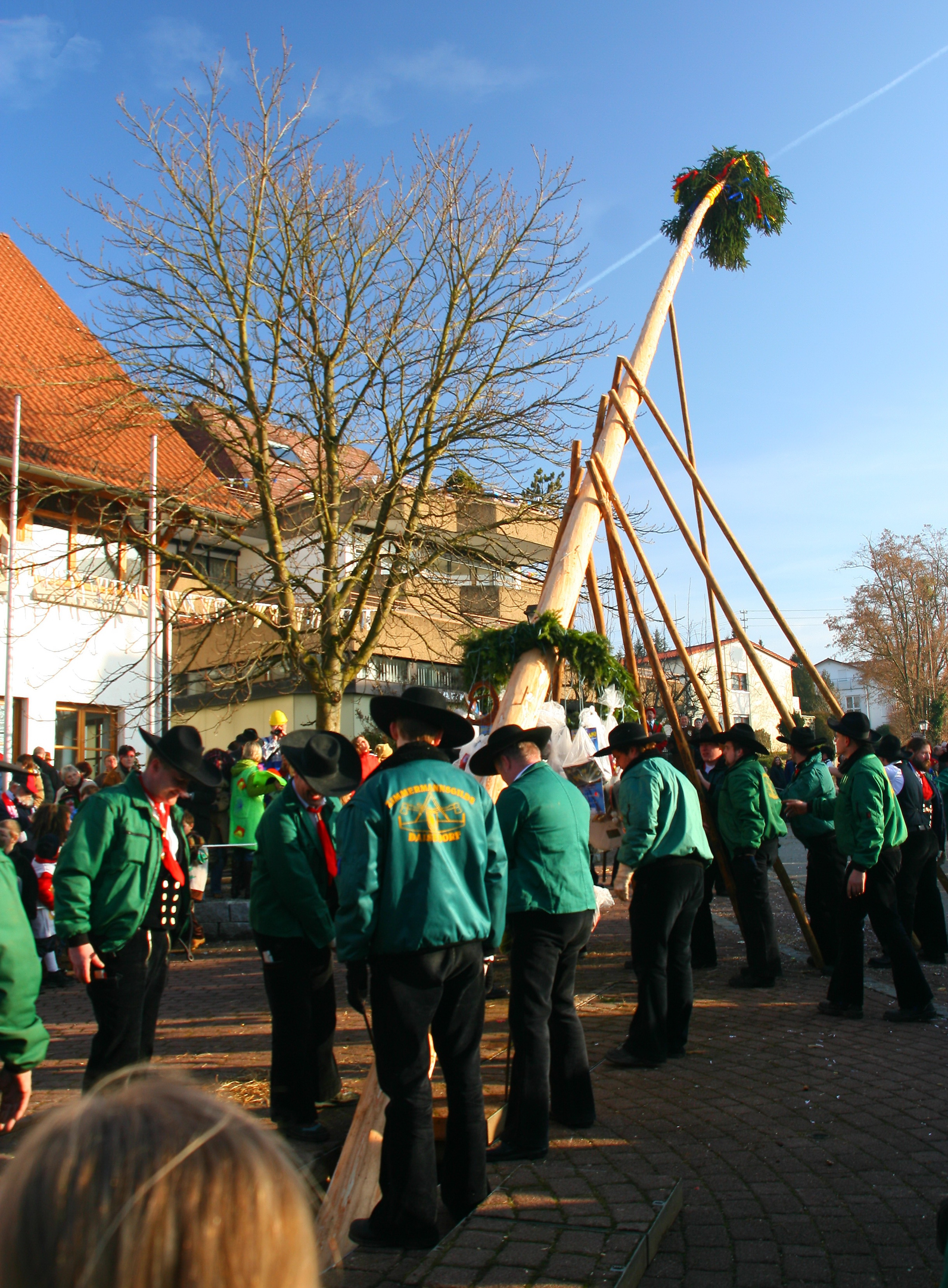 A "Narrenbaum" during the errection